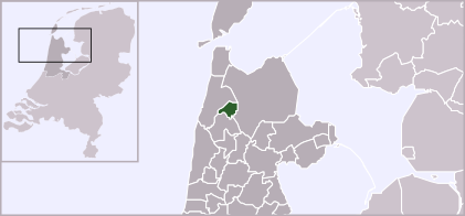 Locator map of Dutch municipalities in Noord-Holland (LocatieSchagen.png)